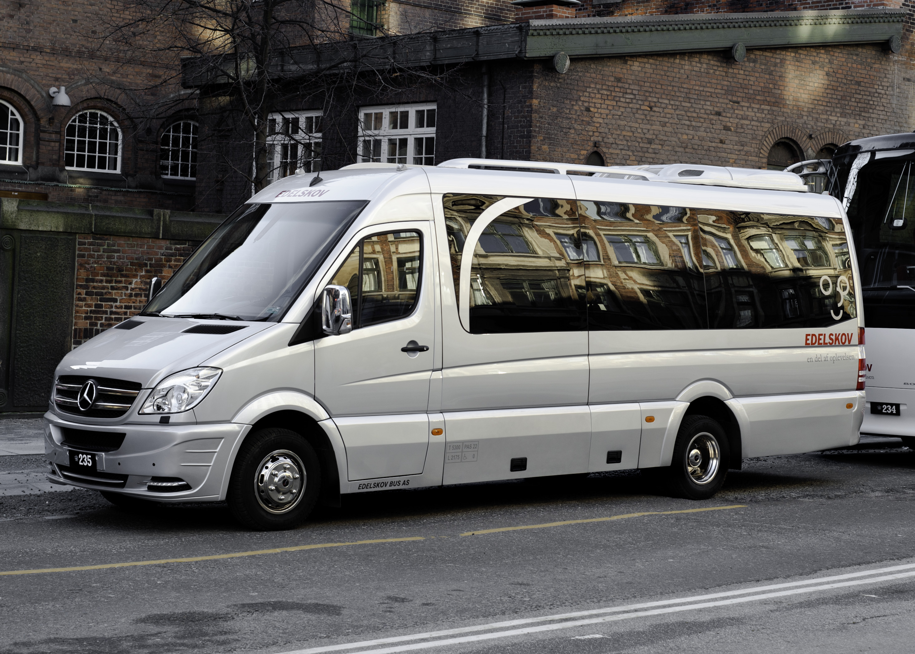 A Mercedes Benz Sprinter (519 I think?) VIP mini-bus (details), from the private bus-company Edelskov, temporarily equipped with a Danish Royal House license plate.